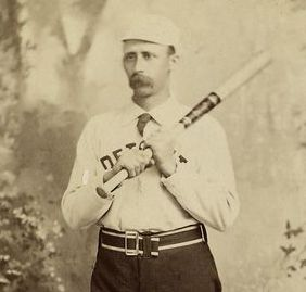 Photograph of Deacon White, Detroit Wolverines third baseman, 1887